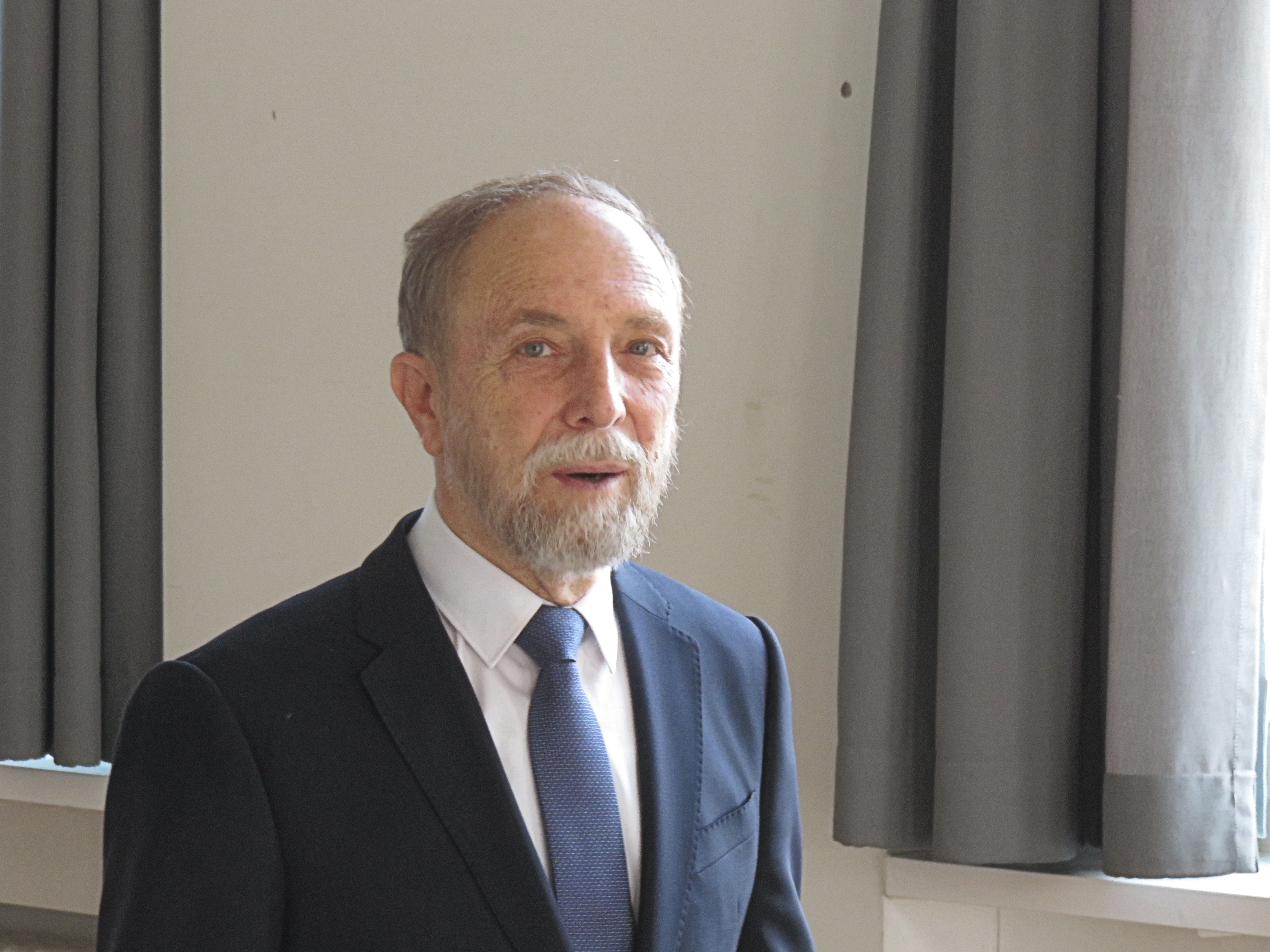 Prof. David Wallach